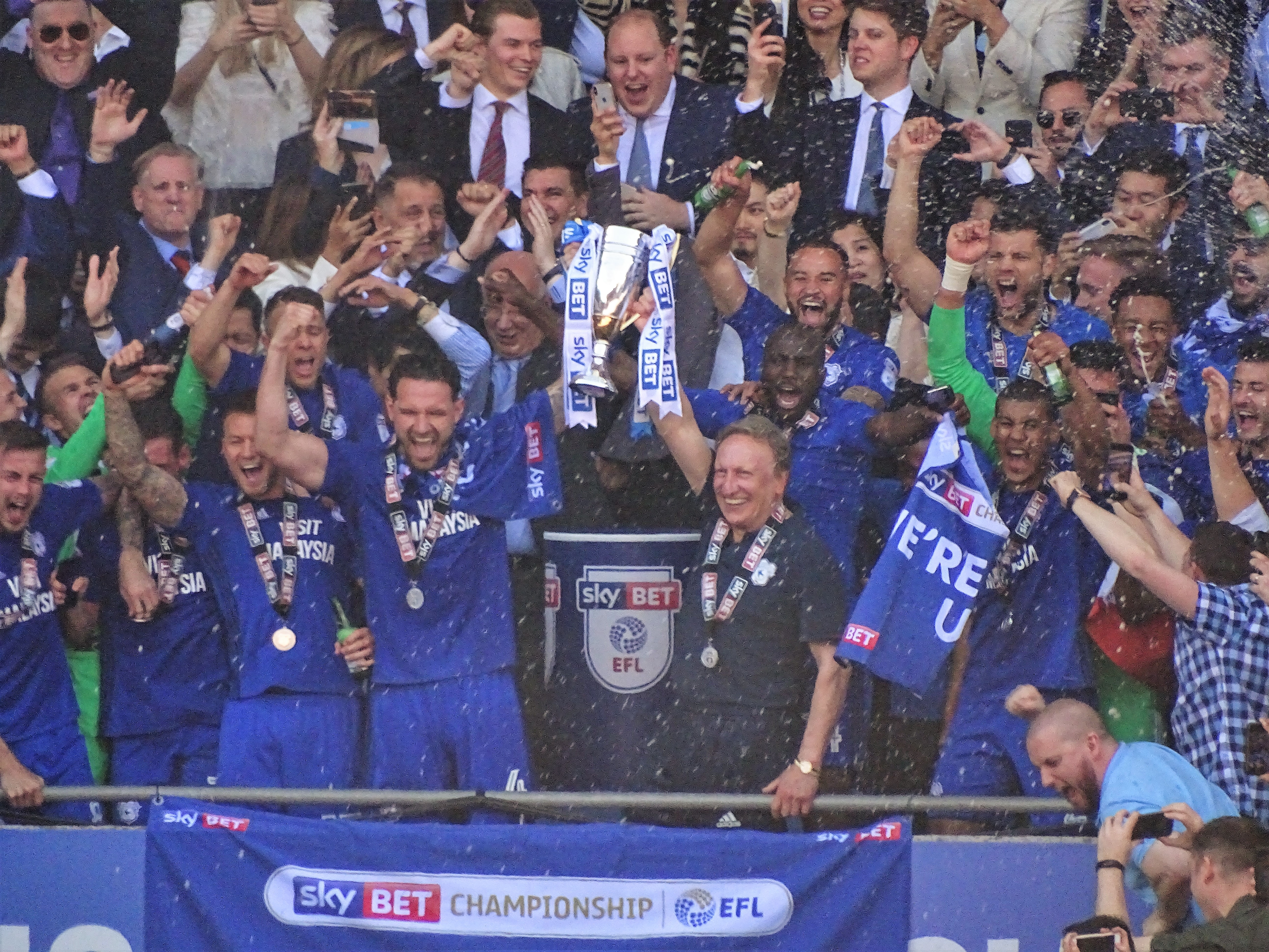 Sean Morrison and Neil Warnock lift the 2017-18 Championship runner-up trophy on 6 May 2018.